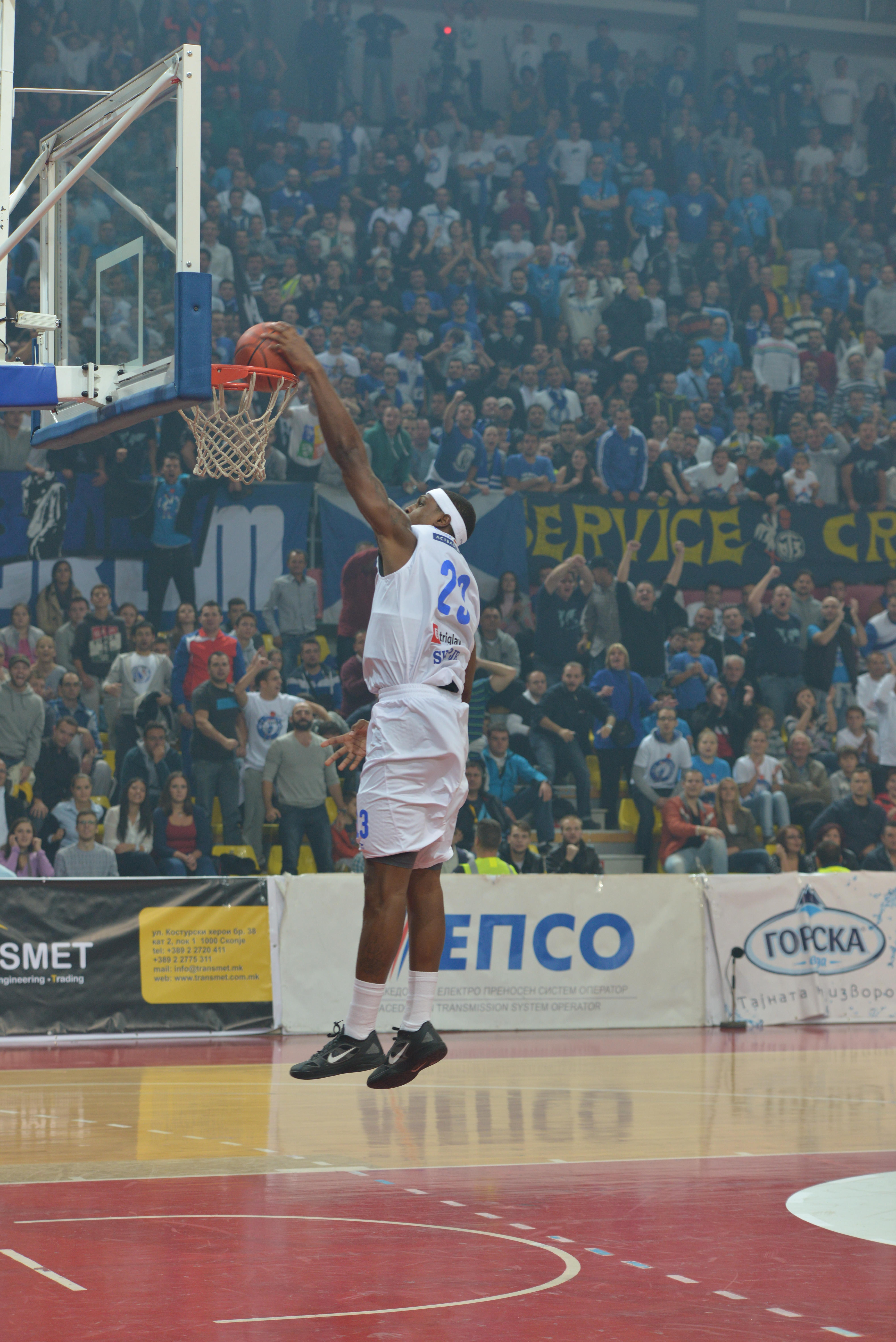 Justin Reynolds with KK MZT Skopje